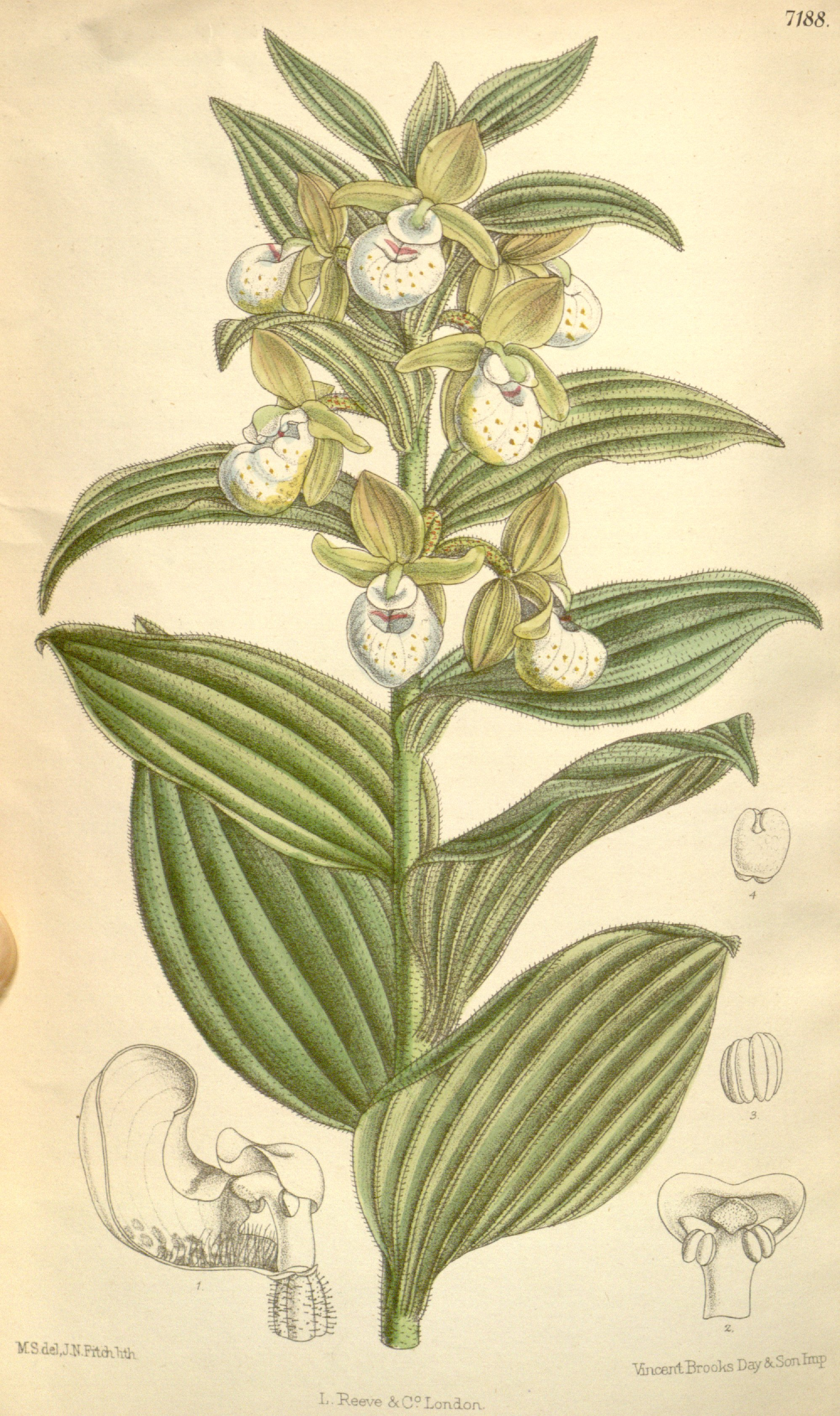 Illustration of Cypripedium californicum